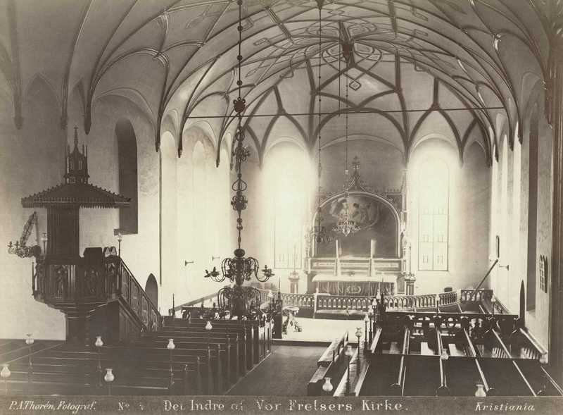 The interior of Oslo Cathedral (Oslo Domkirke/Vår Frelsers kirke) photographed apr.1870-1880 with Alexis de Chateauneufs design from 1848–1850. The pulpit on the left is by Chateauneuf and the altarpiece by Eduard Von Steinle. The pulpit was later moved to Vestre Aker kirke in Oslo and the altarpiece to Asak kirke in Østfold.